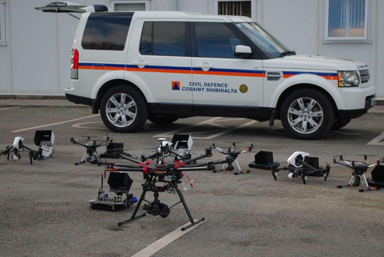 Civil Defence UAVs during a national joint training exercise